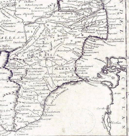 Photo of a section of an ancient map (1737) of the Jesuit Madurai Misison in India.